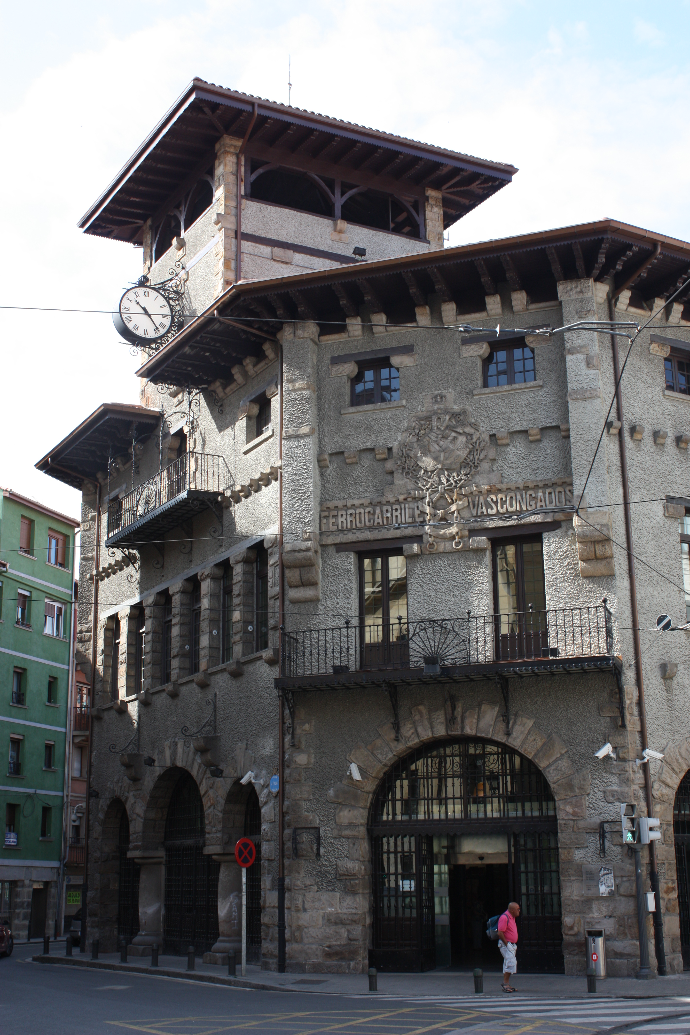 Atxuri Station, Calle Atxuri, Bilbao, Biscay, Spain, July 2010